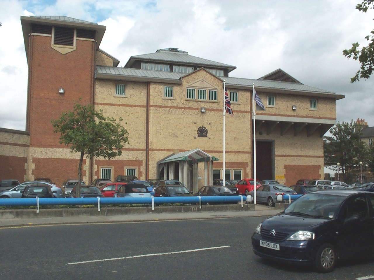 Bedford Prison, Jail or Gaol. It is not the one John Bunyan was held in but a later building, started in 1801 and last upgraded in the 1990s.